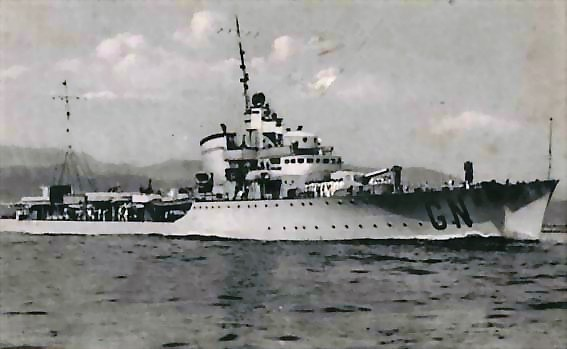 The destroyer Granatiere of the Regia Marina